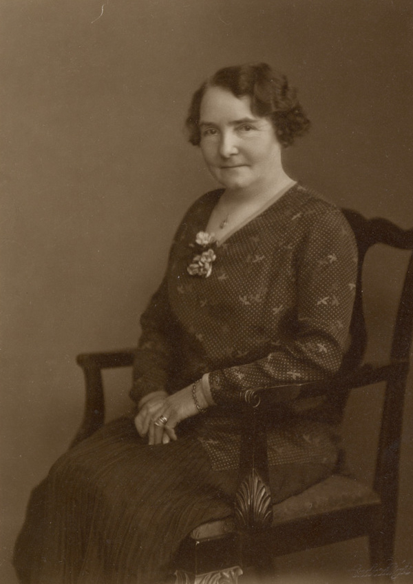 Andrea Brochmann (1868-1954). Herreskrædder / tailor. Socialdemokratiet / the Social Democratic Party. Landstinget 1926-32 og 1933-40.